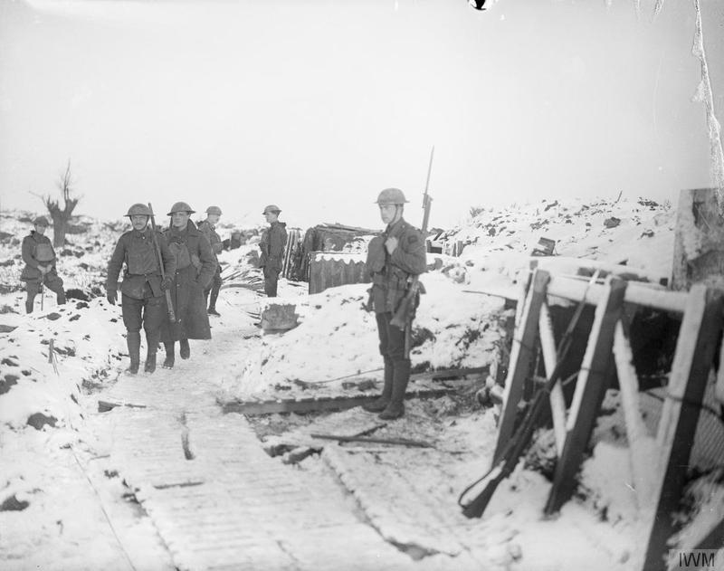 The British Army on the Western Front, 1914-1918 Men of the 15th Battalion, Royal Welch Fusiliers in the snow-covered front line trenches at Fleurbaix, 28 December 1917.